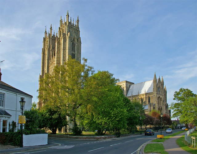 Beverley Minster, Beverley, East Riding of Yorkshire, England.Photo taken from the corner of Keldgate and Long Lane.